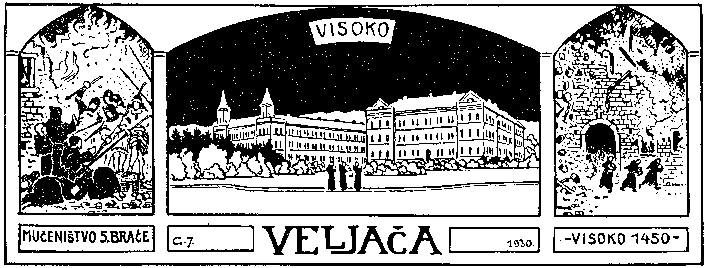 Croatian Catholic calendar in Bosnia and Herzegovina, 1930. Visoko